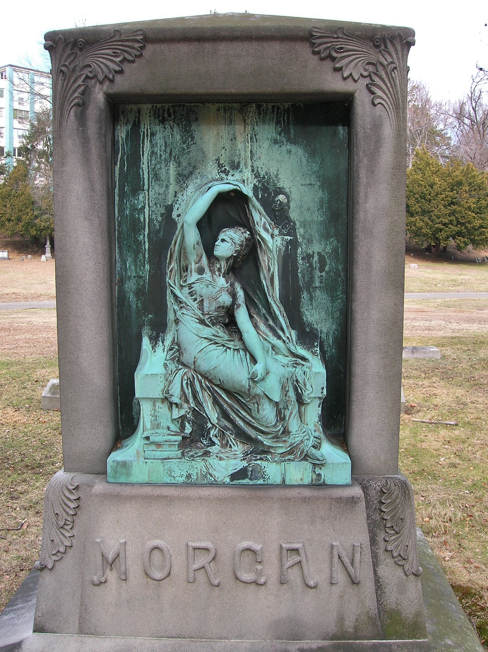 Photograph of the Morgan family monument located in Springfield Cemetery, Springfield, MA. The monument includes a bronze bas relief sculpture of a seated maiden with Athena looking over her shoulder by Henri-Michel-Antoine Chapu. The sculpture was created between approximately 1877 and 1891.